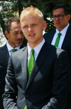 William Yarbrough